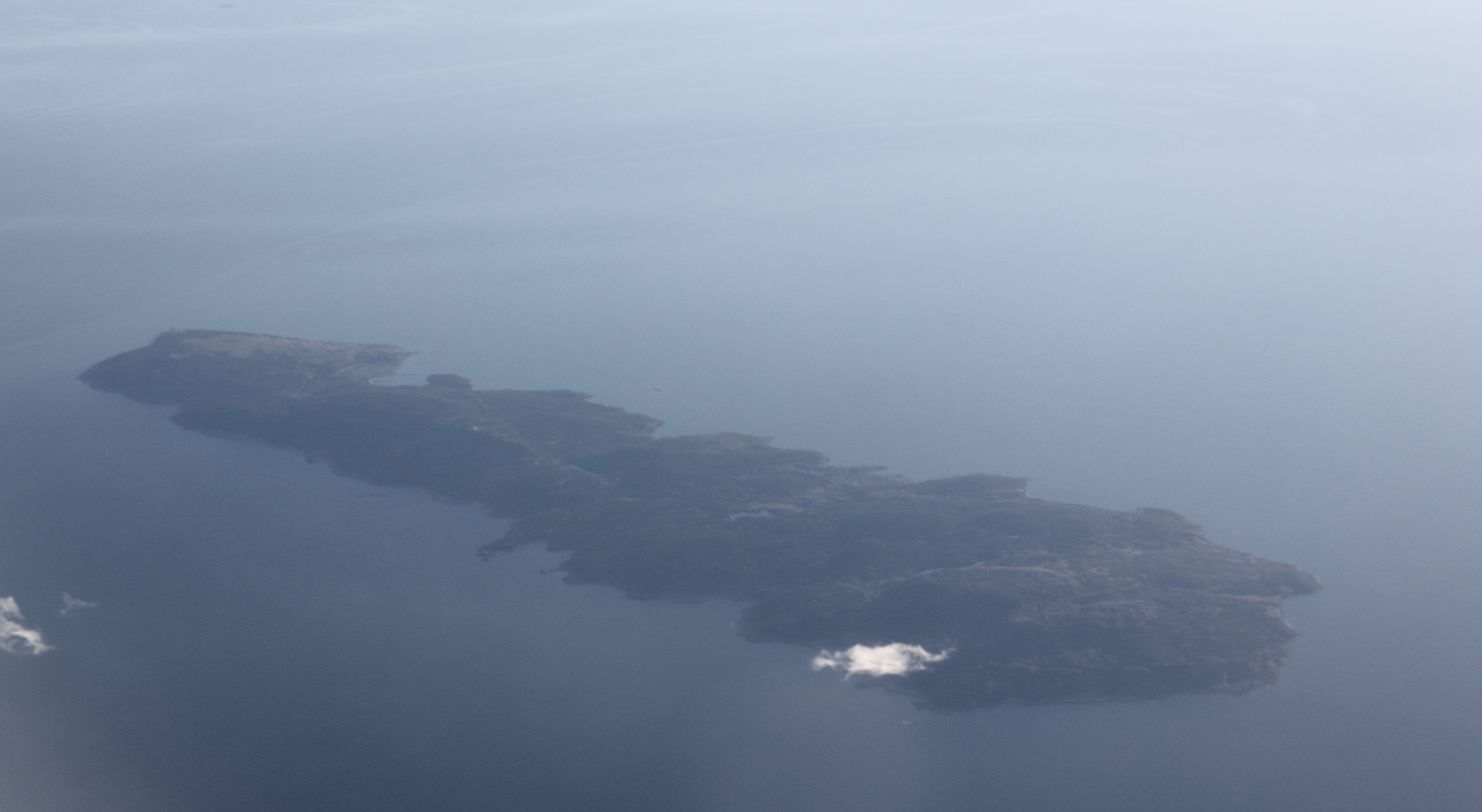 Hogland island photographed from the cabin of Finnair A340.